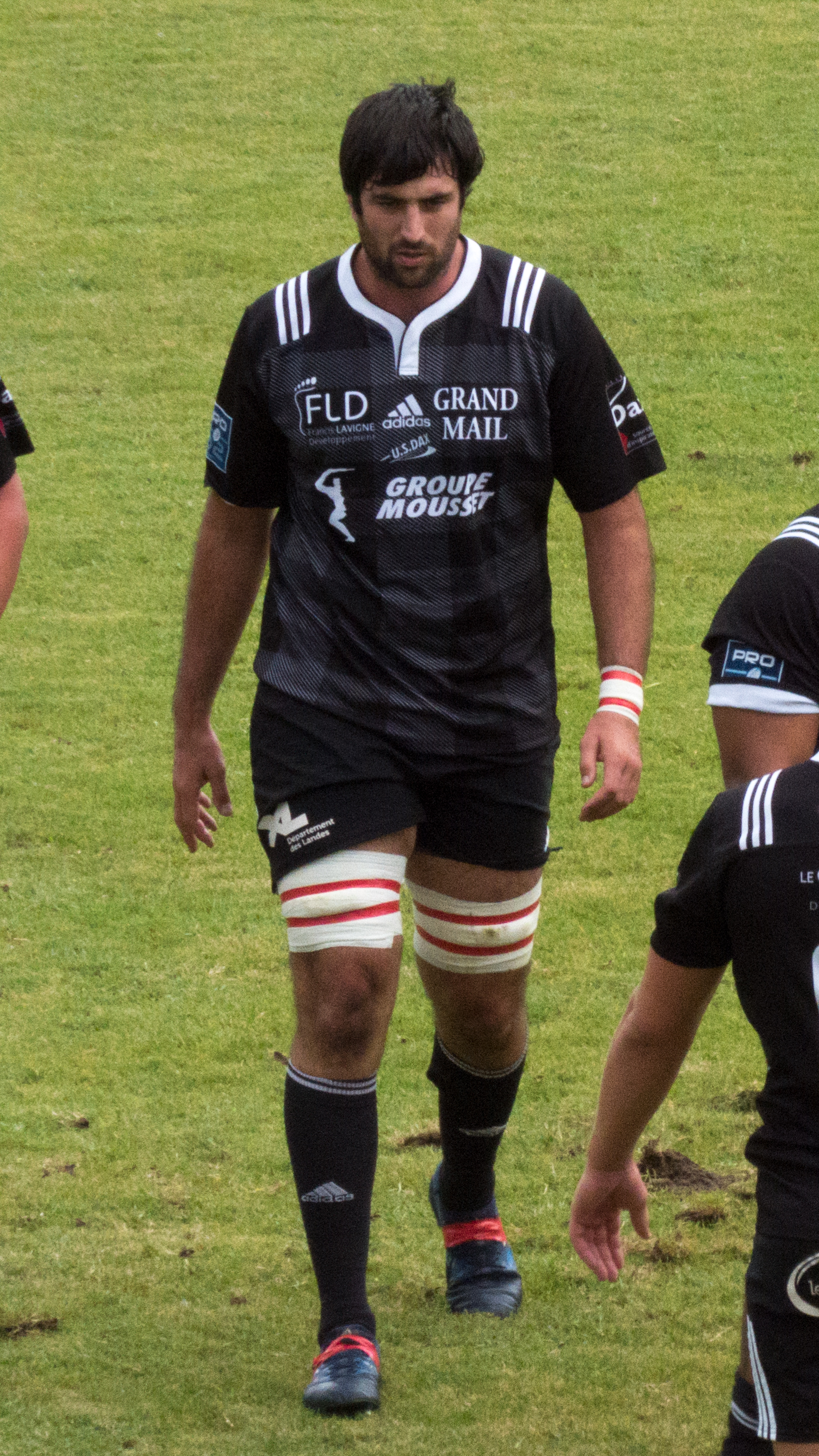 rugby union friendly match — 24 August 2018, Q56417738. Match between: Q21007935 — US Dax